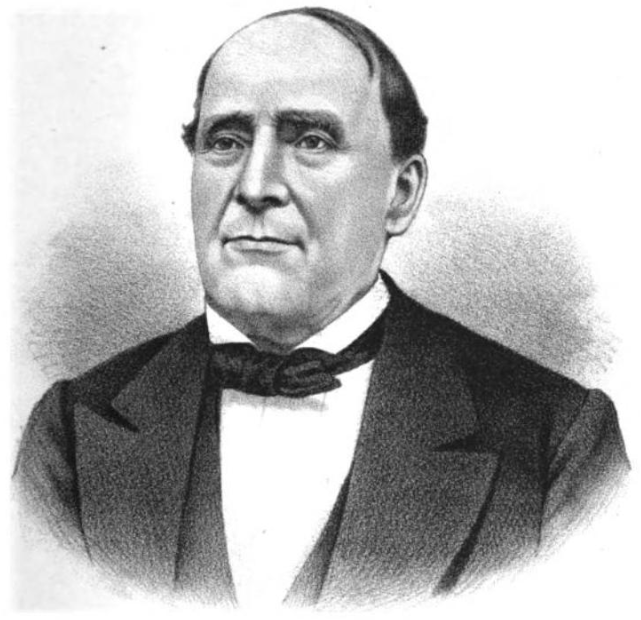 Michigan State Representative Chauncey G. Cady